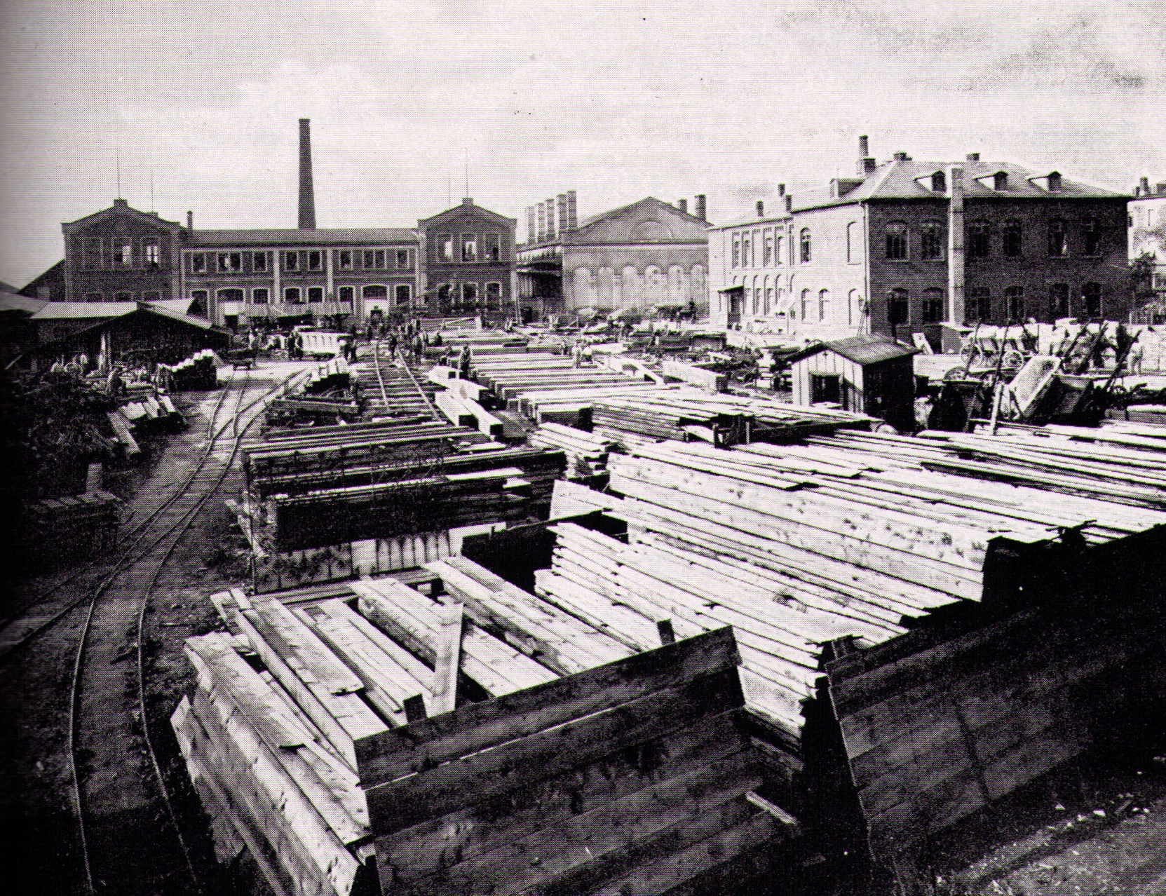 own component supplier site of Philipp Holzmann in the year 1875, at Frankfurt on Main, Germany